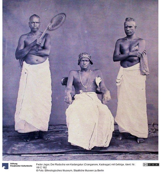 Fedor Jagor, Der Radscha von Kadangalur (Cranganore, Kadnagar) mit Gefoige, Ident Nr: VIII C 182 Foto : Ethnologisches Museum, Staatlichen Museen zu Berlin This media file is uploaded with Wiki Loves Muziris 2019.